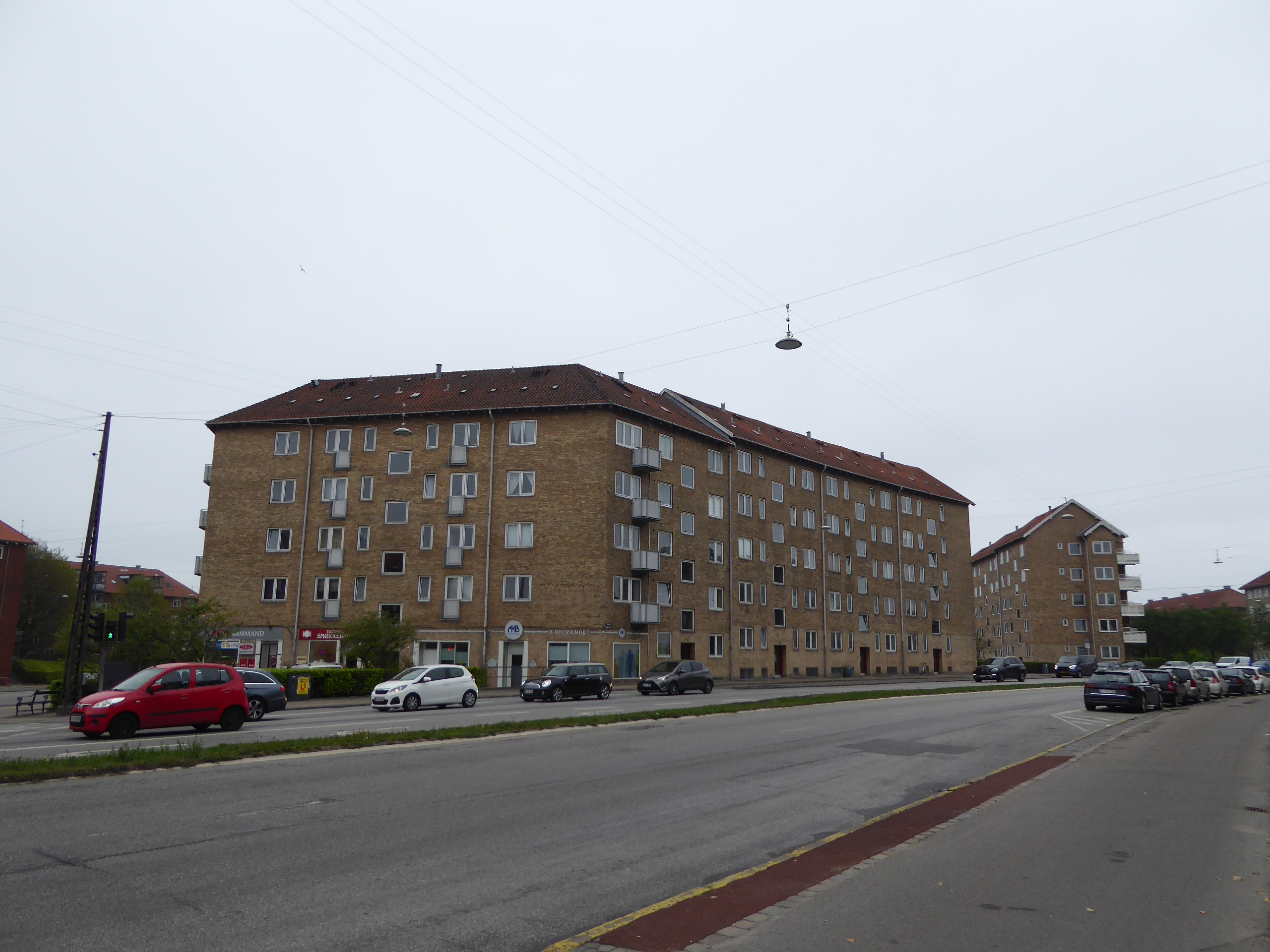 One of the apartment buildings building of AKB Bispevænget at Tuborgvej in Nordvest in Copenhagen.